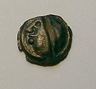 Gaulish coin, called « potin à la grosse tête ».